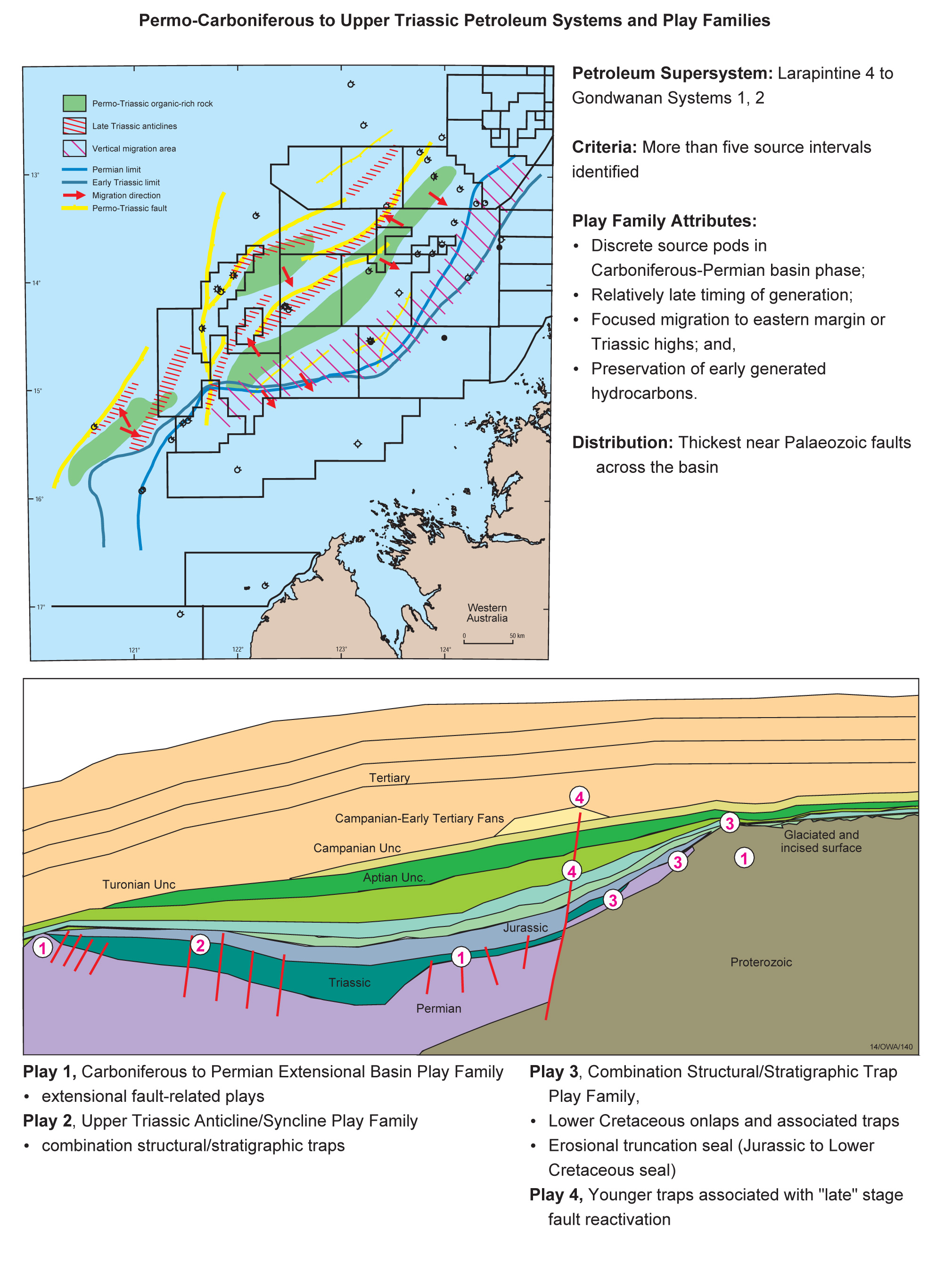 Permo-Carboniferous to Upper Triassic Petroleum System and play families